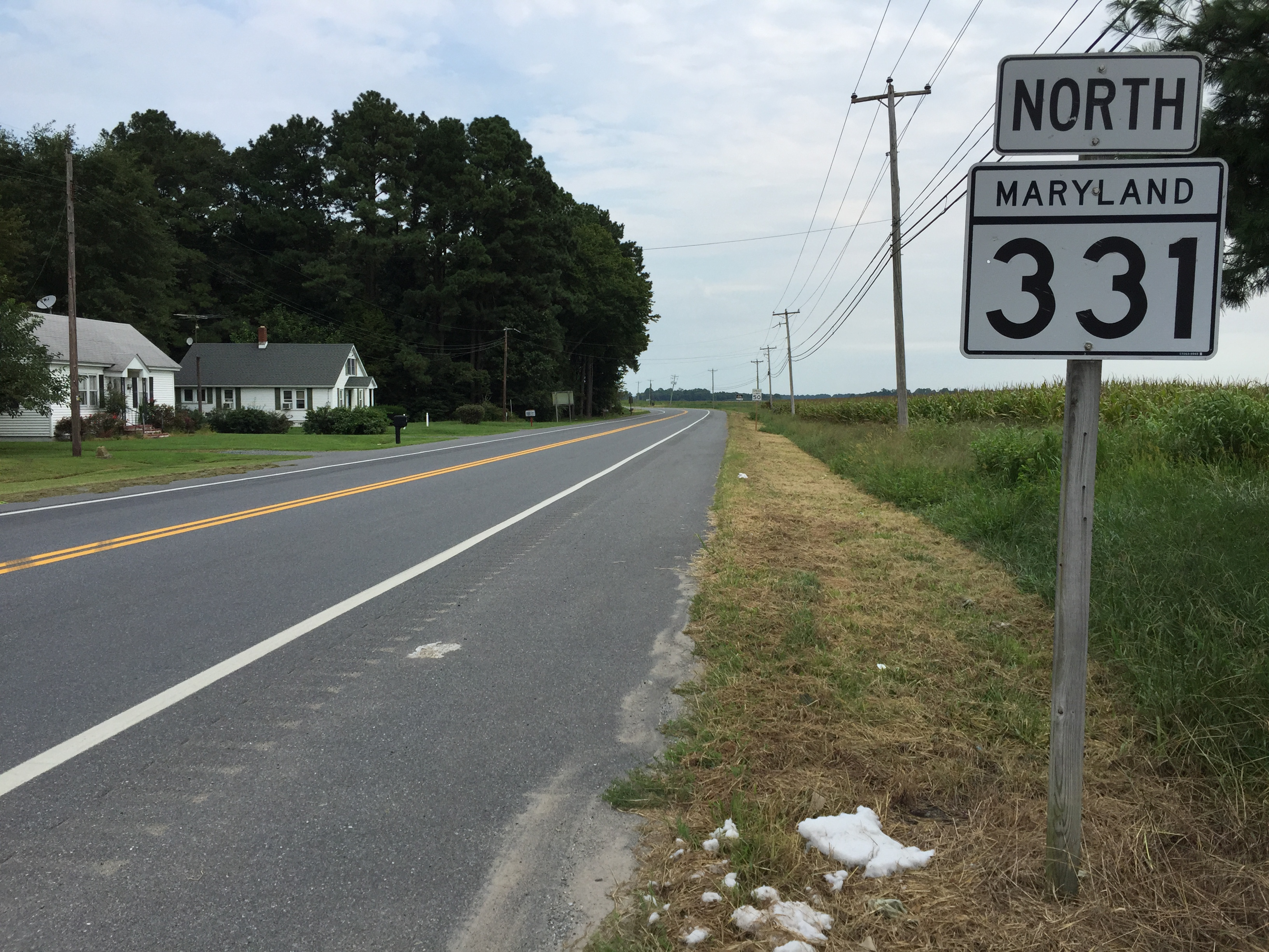 View north along Maryland State Route 331 (Shiloh Church Hurlock Road) at Maryland State Route 14 (Railroad Avenue) in Petersburg, Dorchester County, Maryland